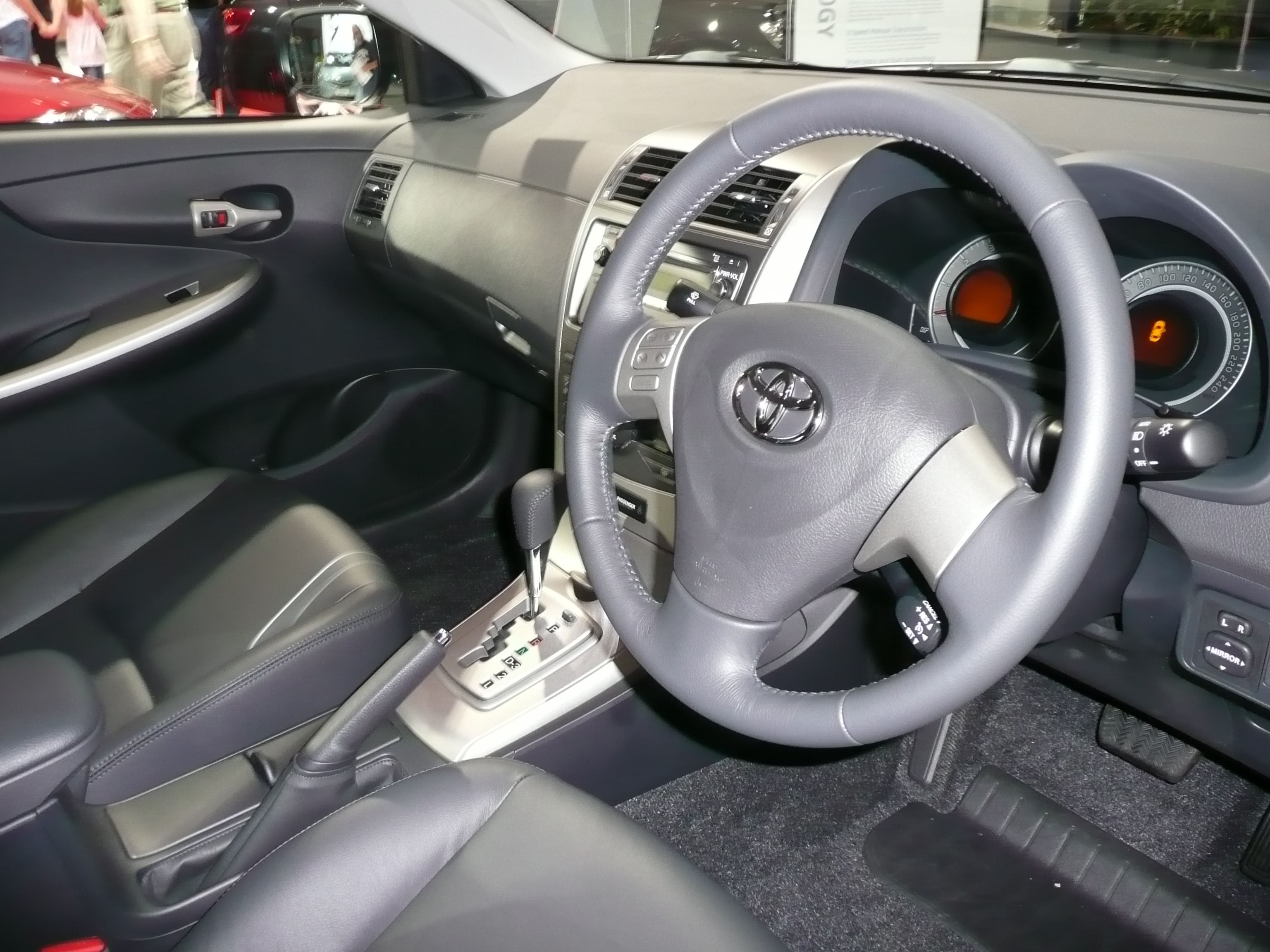 2007 Toyota Corolla (ZRE152R) Ultima sedan. Photographed at the 2007 Australian International Motor Show, Sydney, New South Wales, Australia.